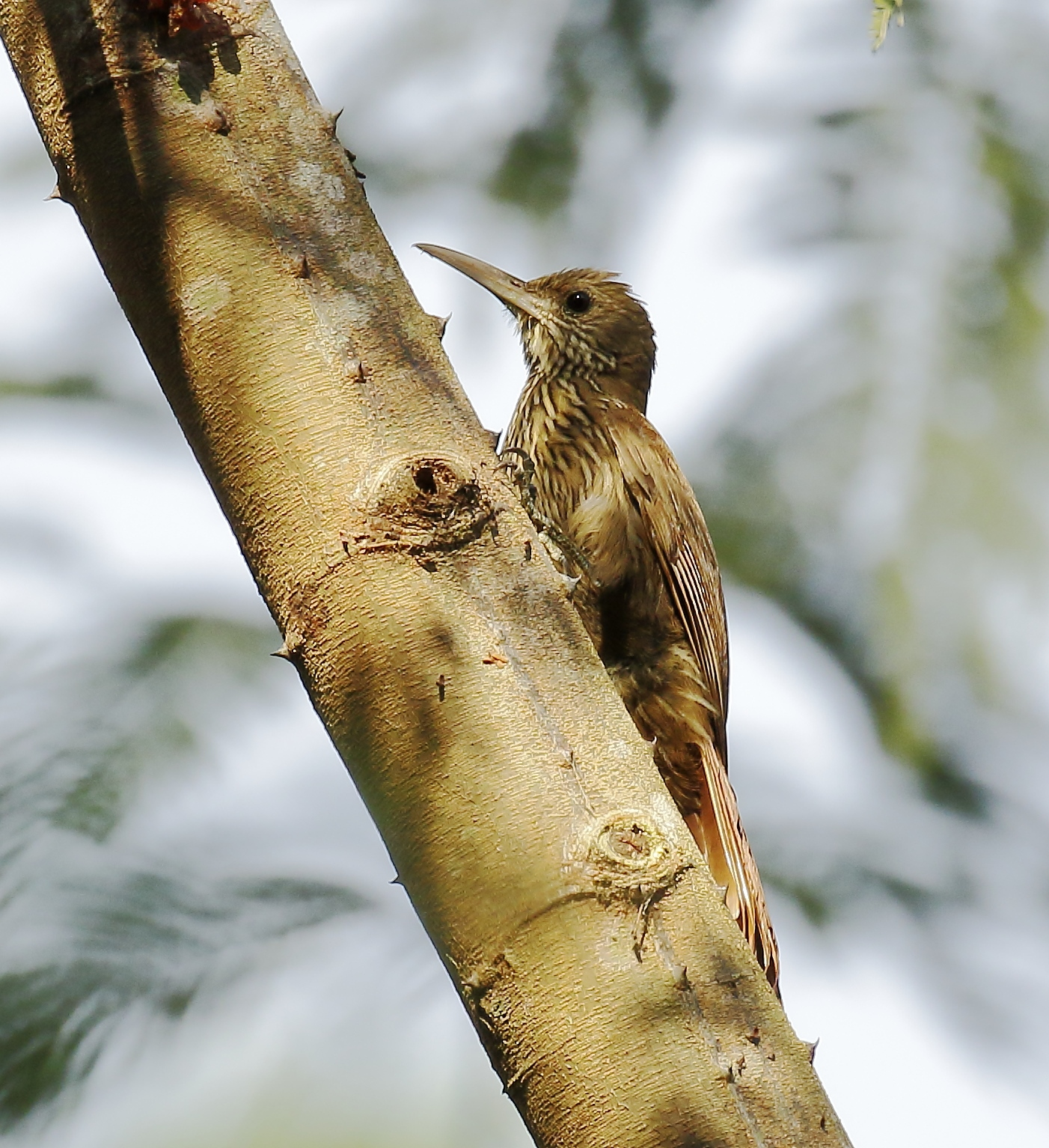 Inambari woodcreeper at Rio Branco, Acre, Brazil